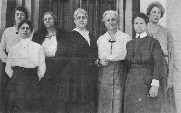 Chief Executives of the American Red Cross Department of Nursing in 1918; left to right: Henriette S. Douglas, Katrina Hertzer, Anna Reeves, Jane A. Delano, Clara D. Noyes, Elizabeth G. Fox, Elva A. George.